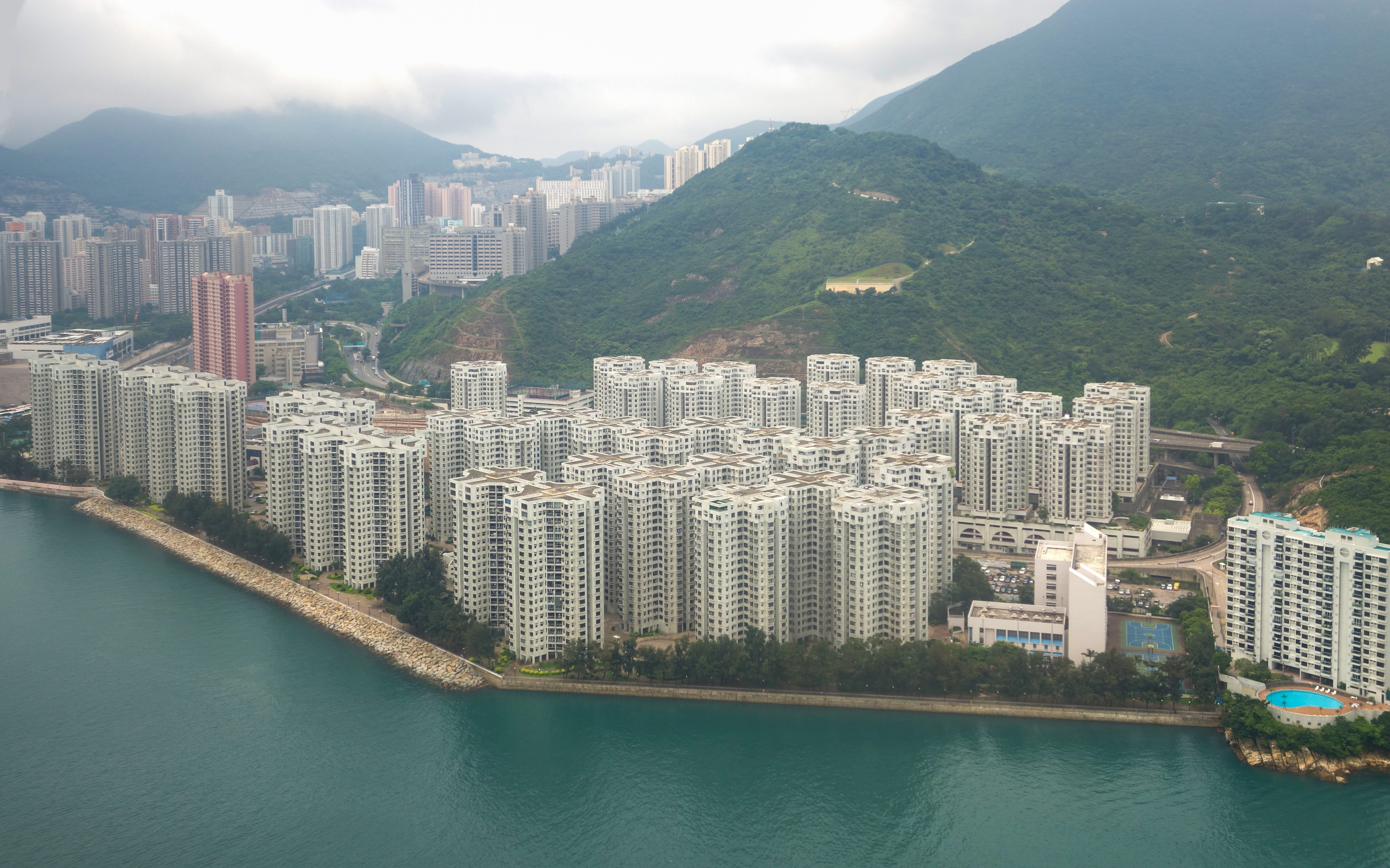 An aerial view of Heng Fa Chuen in Hong Kong